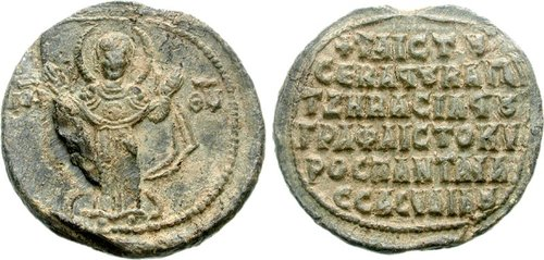 Basil Batatzes. sebastos, circa 1189. PB Seal (19.84 g, 12h). MP ΘV across field; the Theotokos standing facing on circular dais, hands raised in gesture of prayer, with an aureole of the child Christ on her breast / +TAIC T_/ CERACT_ RATA/ TZ HRACIΛI_/ ΓPAΦAI C TO KV/ POC ΠANTANA/ CCA CV ΔIΔ_ in six lines. BLS I 2740; DOCBS -. Good VF, gray patina, minor roughness.